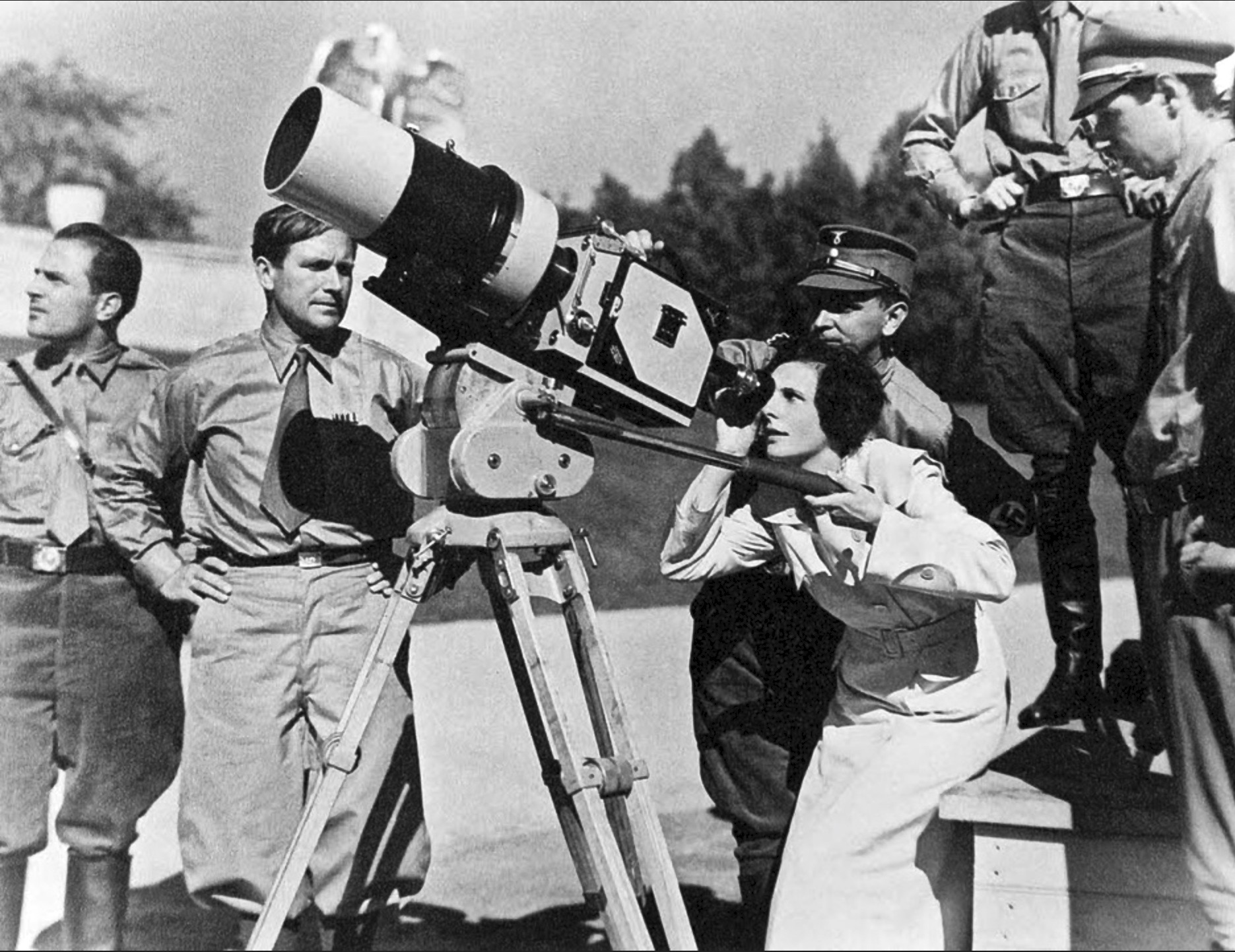 Director Leni Riefenstahl (1902–2003) looking through the lens of a camera for the movie Triumph of the Will in 1934 on location at Reichsparteitagsgelände (Nazi party rally grounds) in Nuremberg, Franconia, Germany. On the left of the camera her chief cameraman Sepp Allgeier (1895–1968) kept an eye on her. – Members of Riefenstahl's team wore a SA uniform or similar looking clothes (Allgeier) in order to keep the overall view of the rally as the deployed groups were all uniformed.